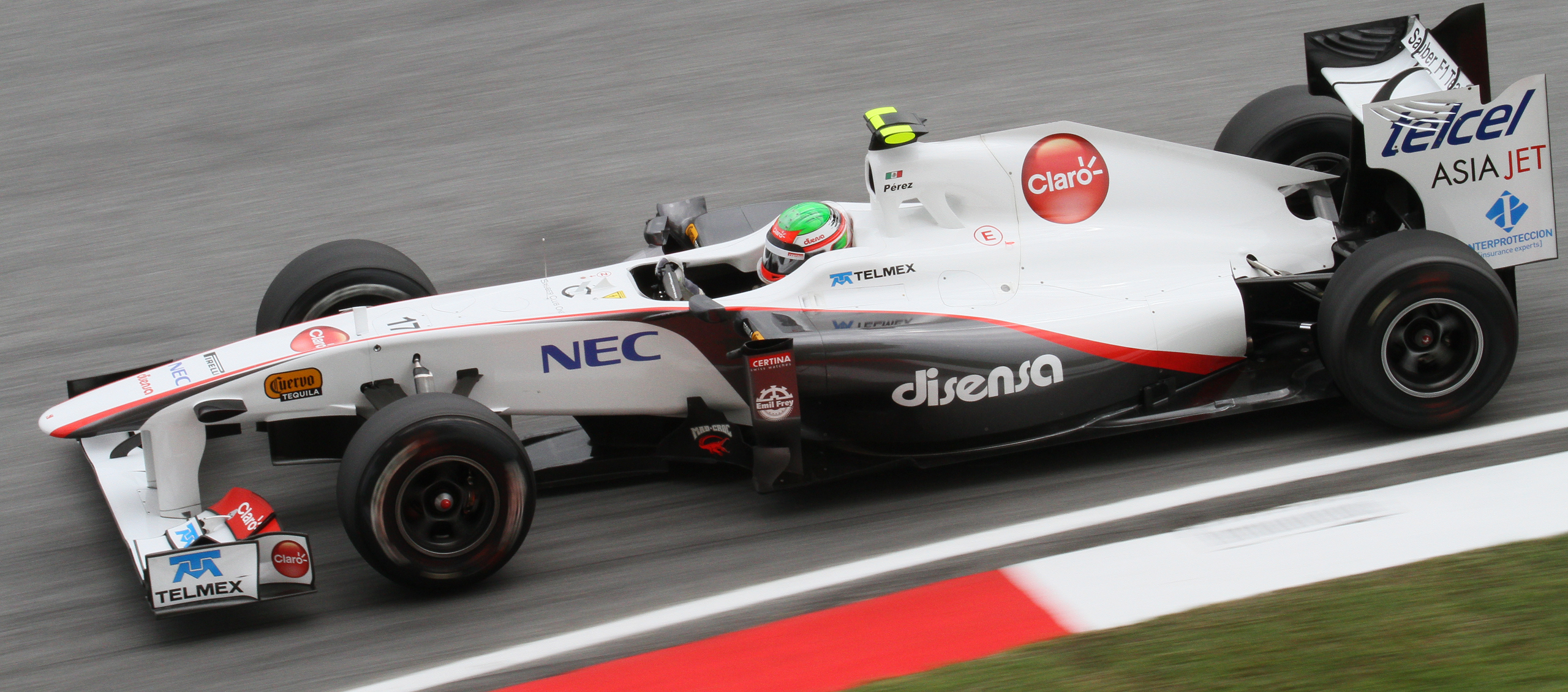 Formula One 2011 Rd.2 Malaysian GP: Sergio Pérez (Sauber) during the first practice session on Friday.